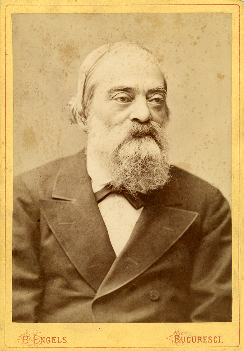 Cabinet photography (albumen) of C. A. Rosetti